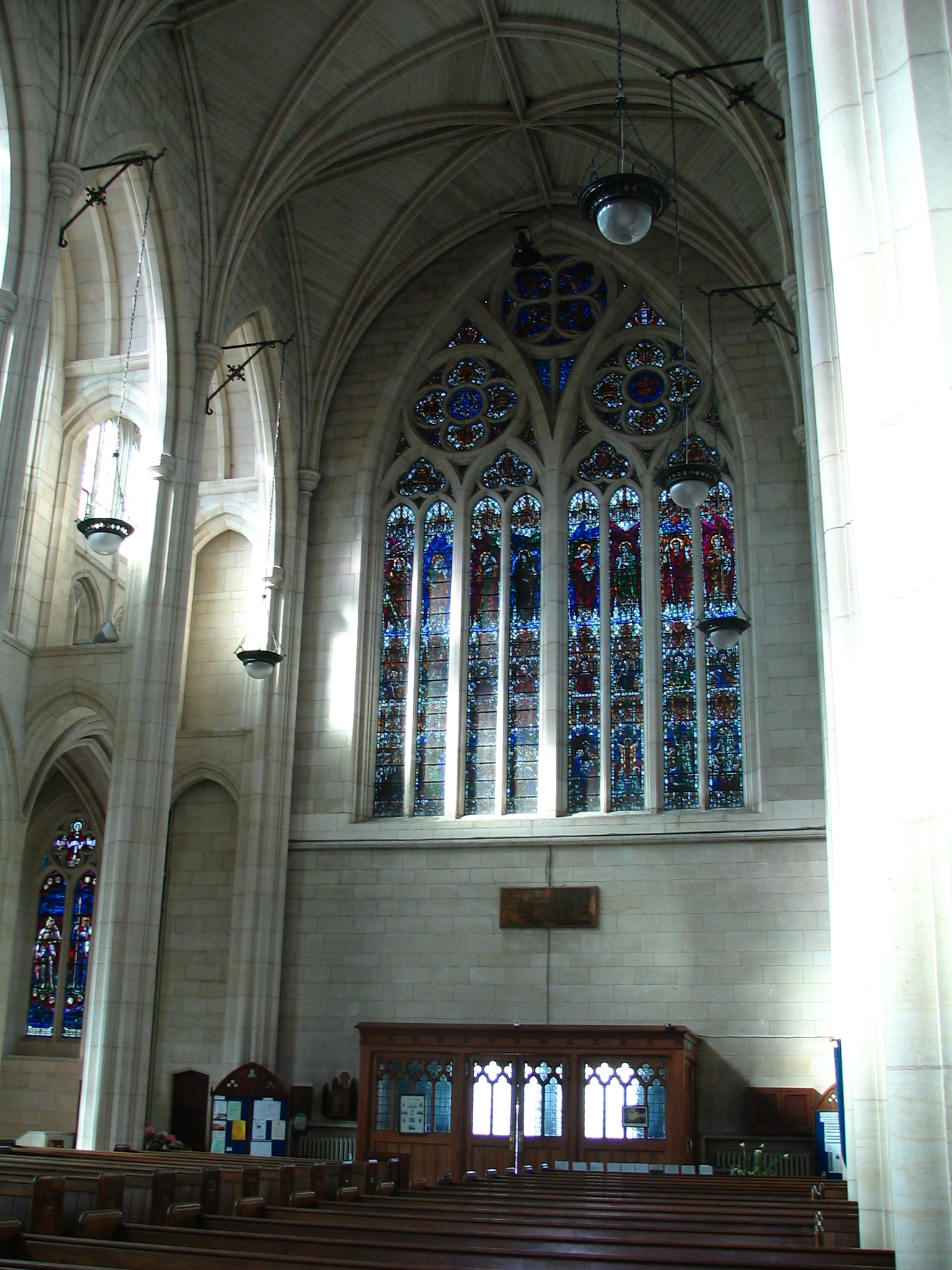 The Memorial Window of St. Paul's Cathedral, Dunedin, New Zealand, to soldiers of Otago and Southland who died during World War I. From the catheral website: "It includes eight significant panels, each with an image of an angel. The angel of death bears a scythe and the angel of peace bears leaves of peace."